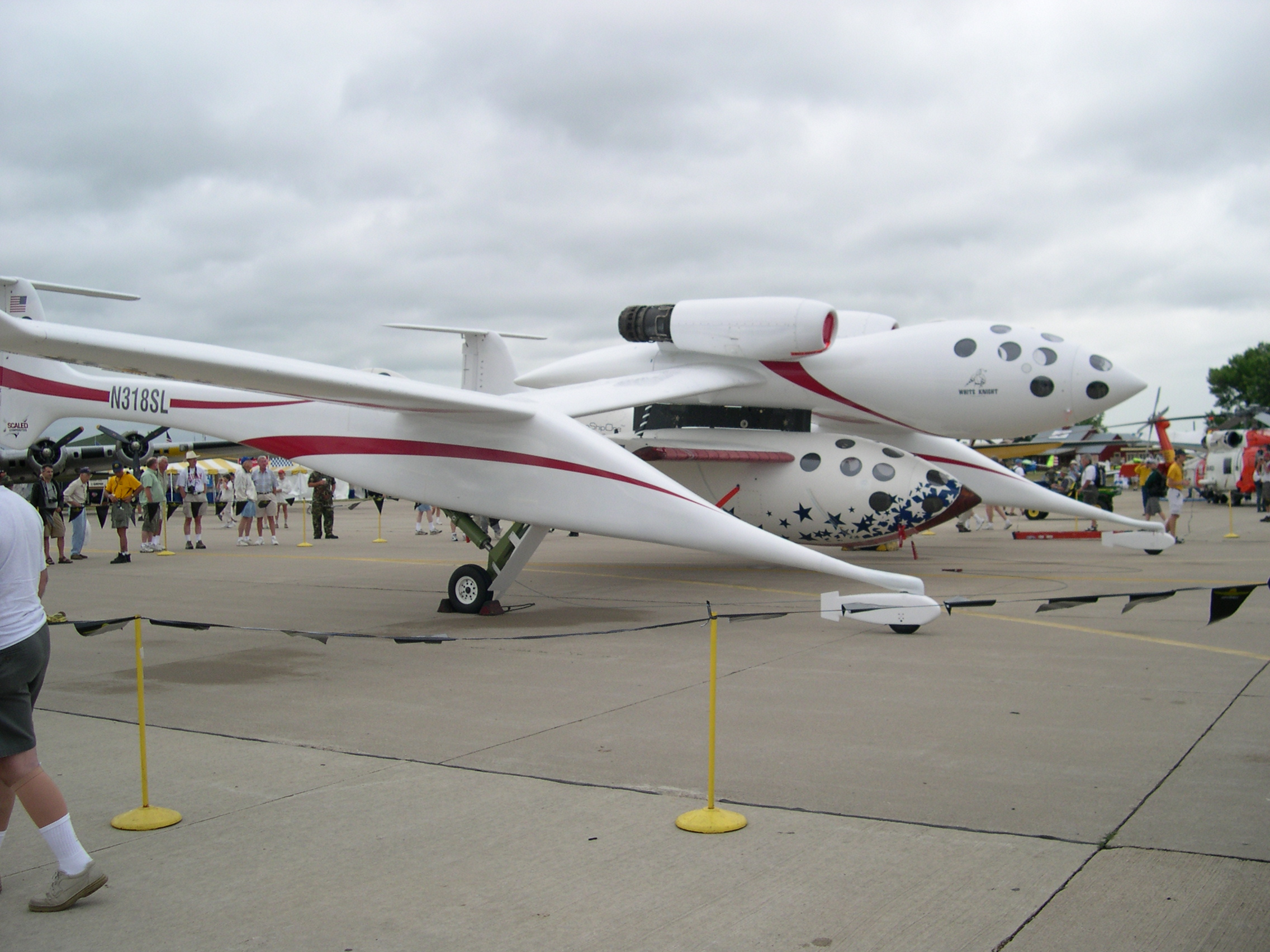 Scaled Composites White Knight carrying SpaceShipOne (SS1) on display at the Oshkosh Airventure 2005.